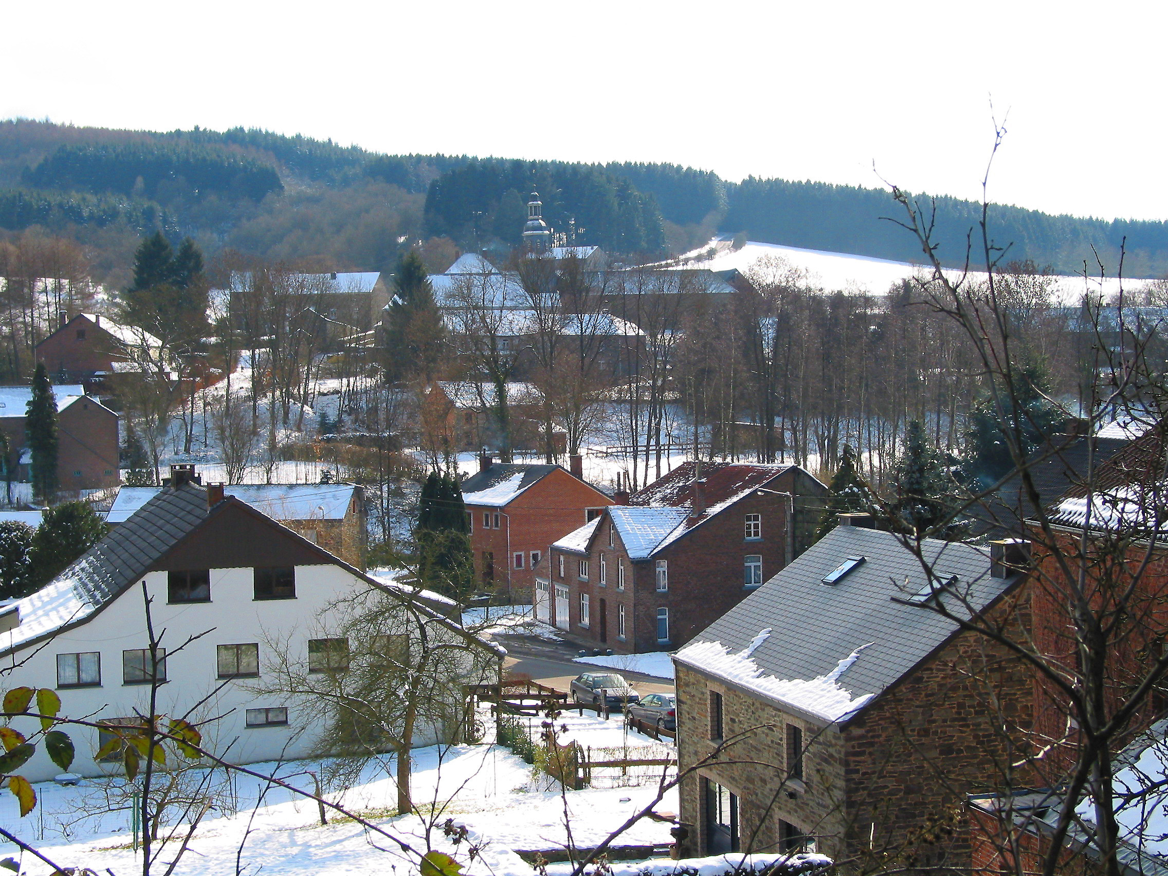 Masbourg (Belgium), the village veiwed from the calvary of the Ambly road.